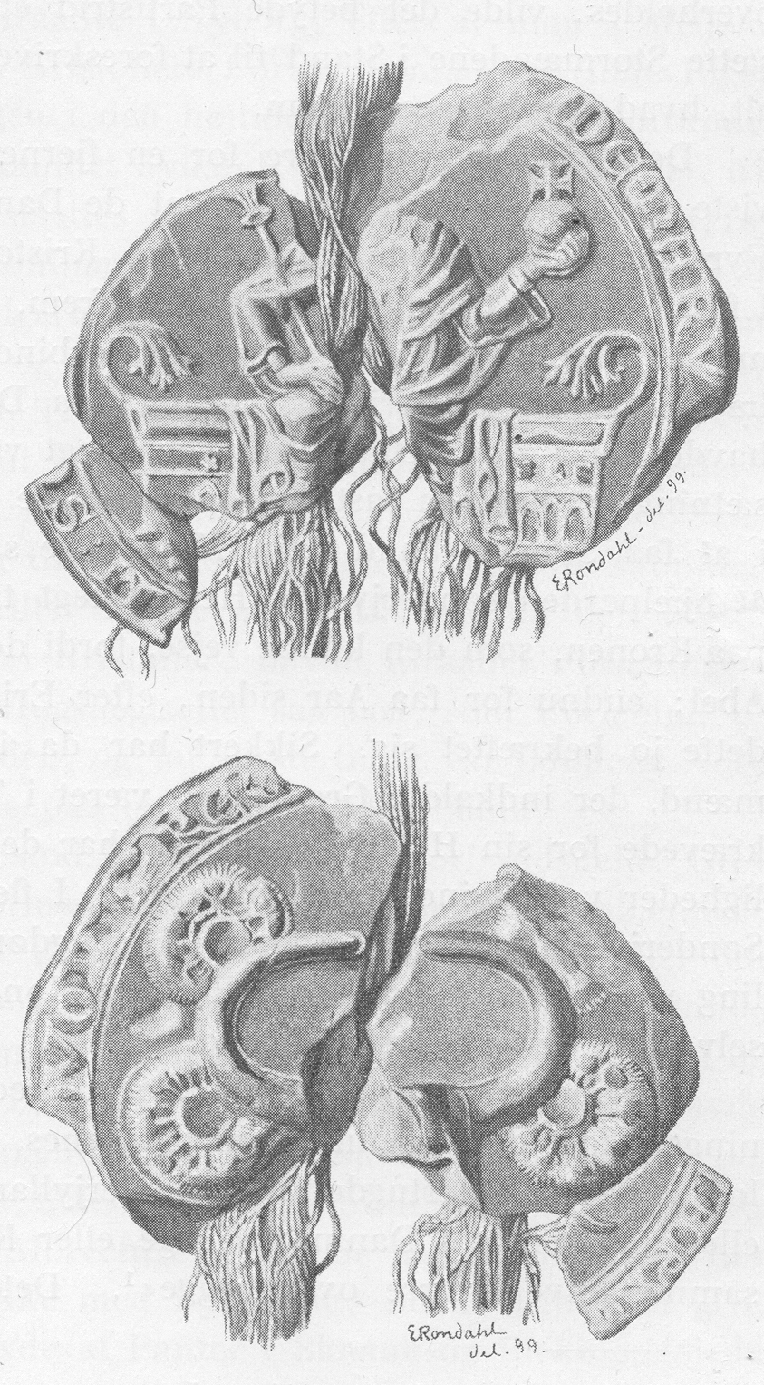 Royal seal of king Valdemar III of Denmark. Drawn by E. Rosendahl.